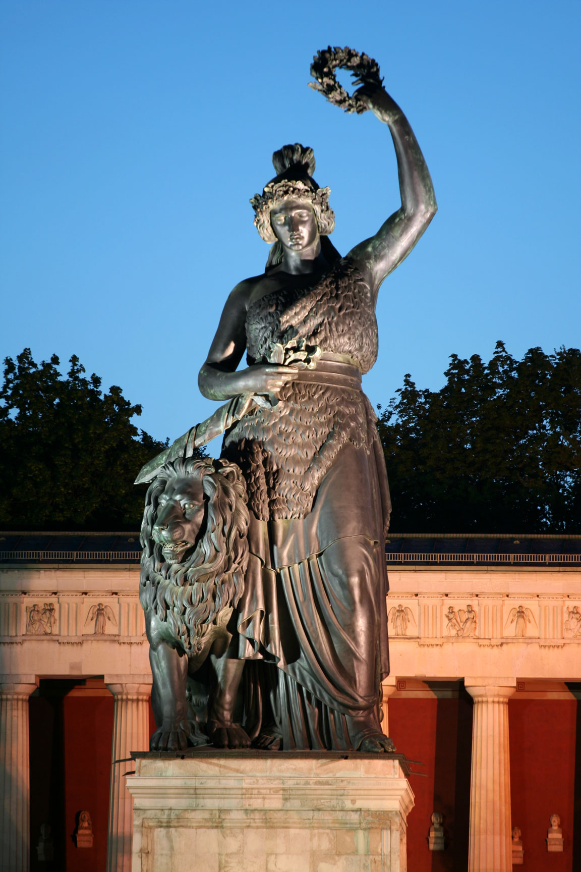 Bavaria Statue on Theresienwiese, Munich